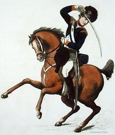 A painting by Thomas Rowlandson of a Volunteer Corps cavalryman from Westminster